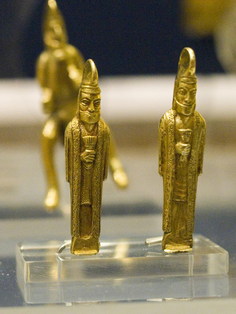 Rare Achaemenid period gold statuettes from the Oxus Treasure.